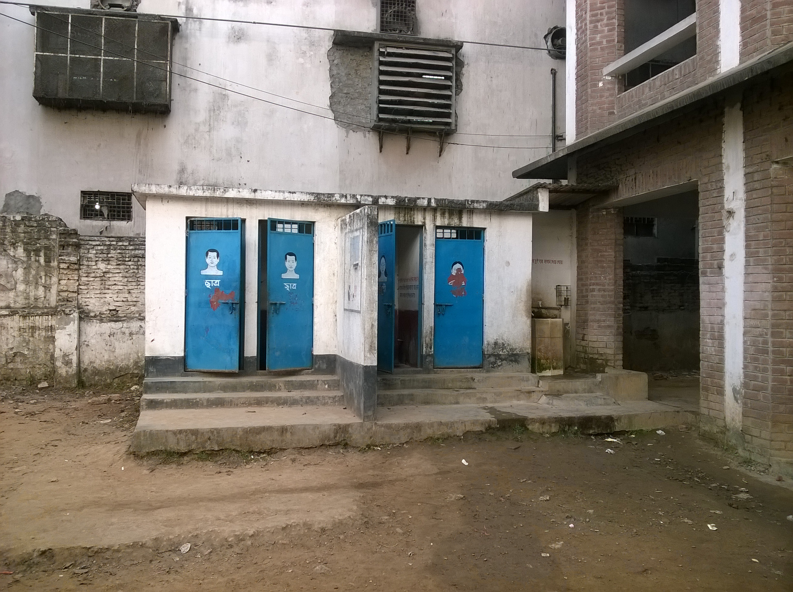 Photos taken for this report: . See also here: by Jacques-Edouard Tiberghien in 2016